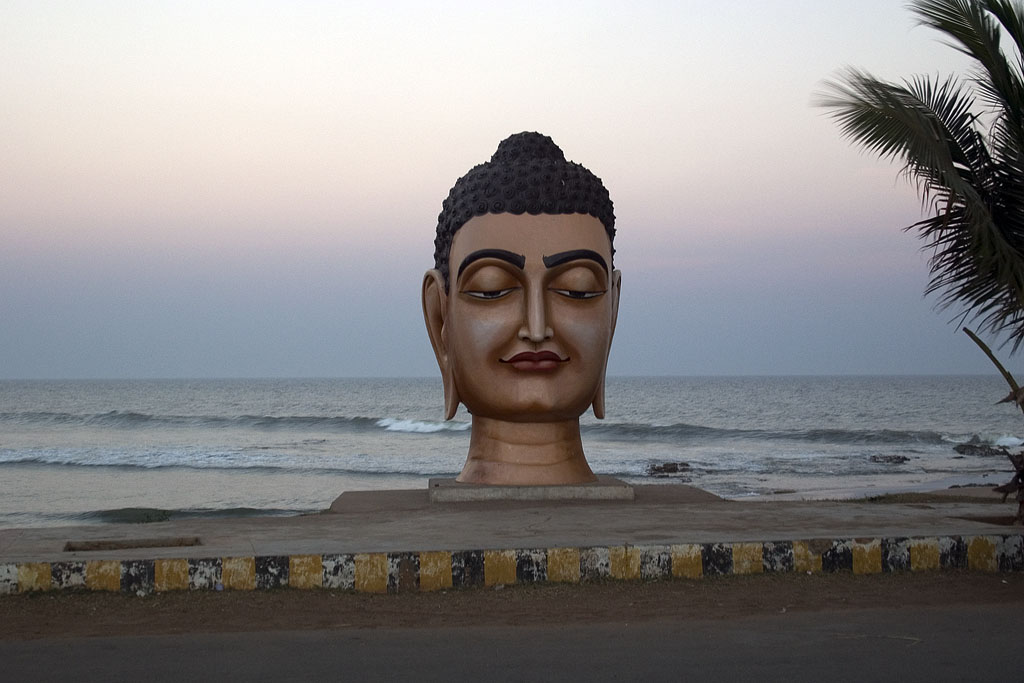 Buddha Statue at Bheemunipatnam beach Road, Visakhapatnam district, India